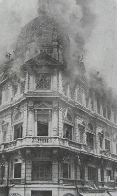 O Paíz being destroyed by criminal fire, on the 24th of October 1930.